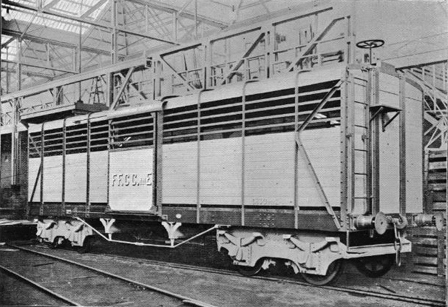 Baume et Marpent - Chile railway cargo Wagon